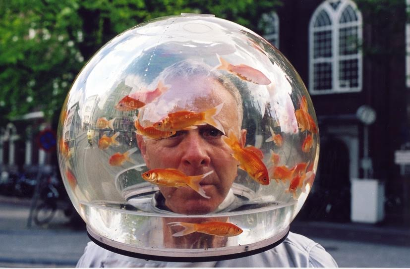 FISH-O-VISION, 2004 designed and photographed by Eric Staller